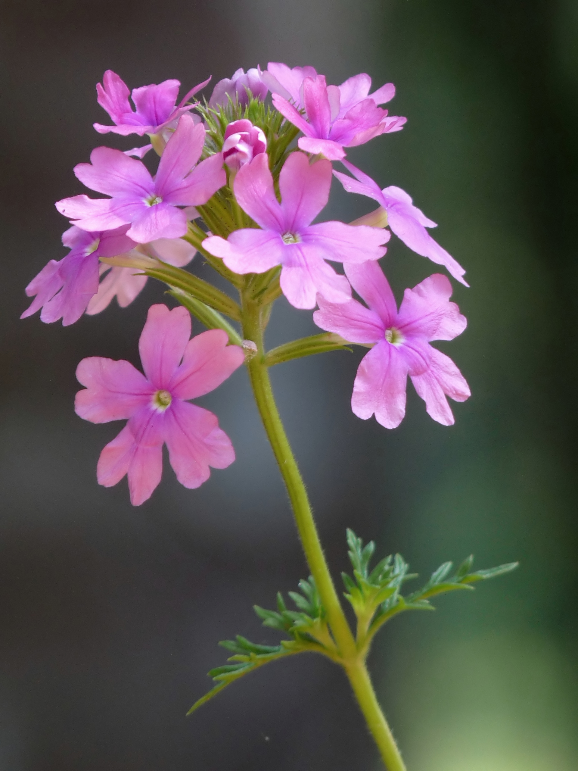 Glandularia pulchella is a species of flowering plant in the verbena family known by the common names South American mock vervain and Moss Verbena. It is native to Brazil, Argentina, and Uruguay, and it is present elsewhere as an introduced species and roadside weed. It is an annual or perennial herb producing one or more stems growing decumbent to erect in form and hairy to hairless in texture. The rough-haired leaves are divided deeply into lobes. The inflorescence is a dense, headlike spike of many flowers up to 1.5 centimeters wide. Each flower corolla is up to 1.4 centimeters wide and white to purple in color.